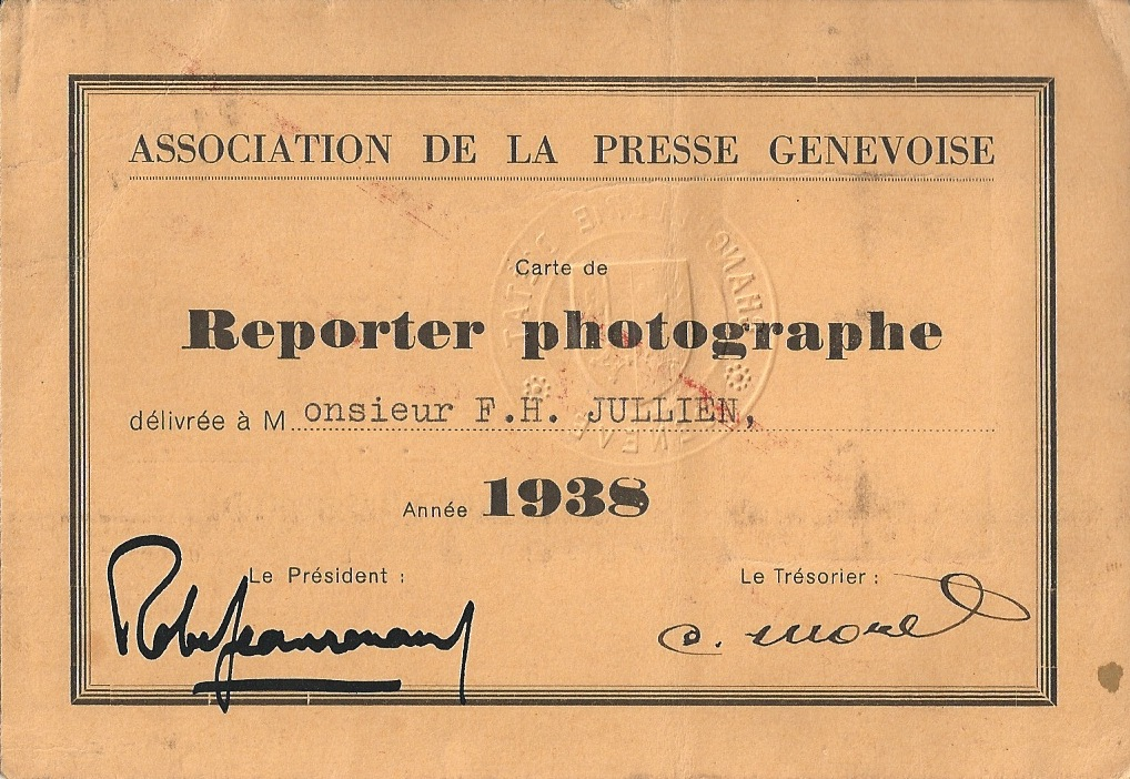 Reporter card during the war (pass)